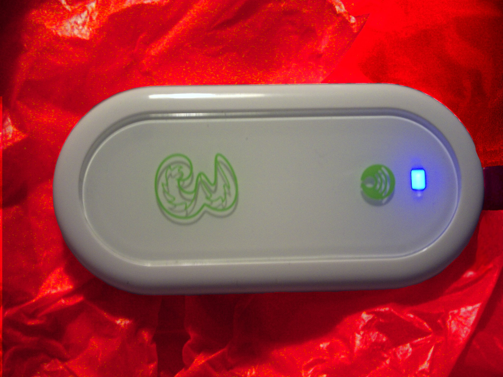 Huawei E220 wireless USB modem, branded Three . It was used to upload its own picture.